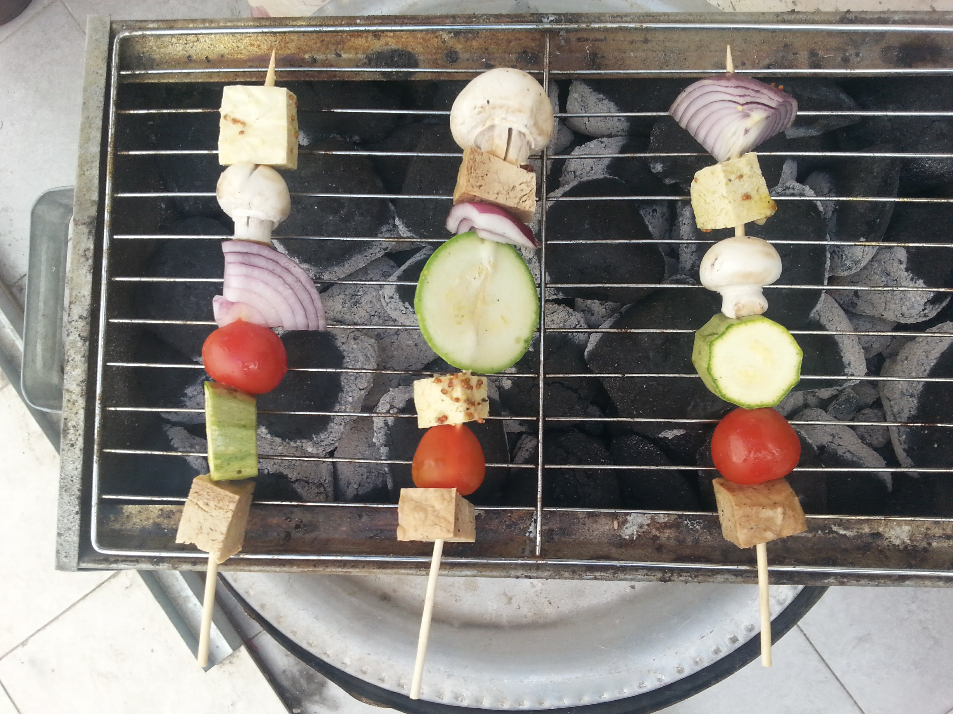 BBQ with vegan ingredients: Tofu, zucchini, cherry tomato, purple onion, mushroom